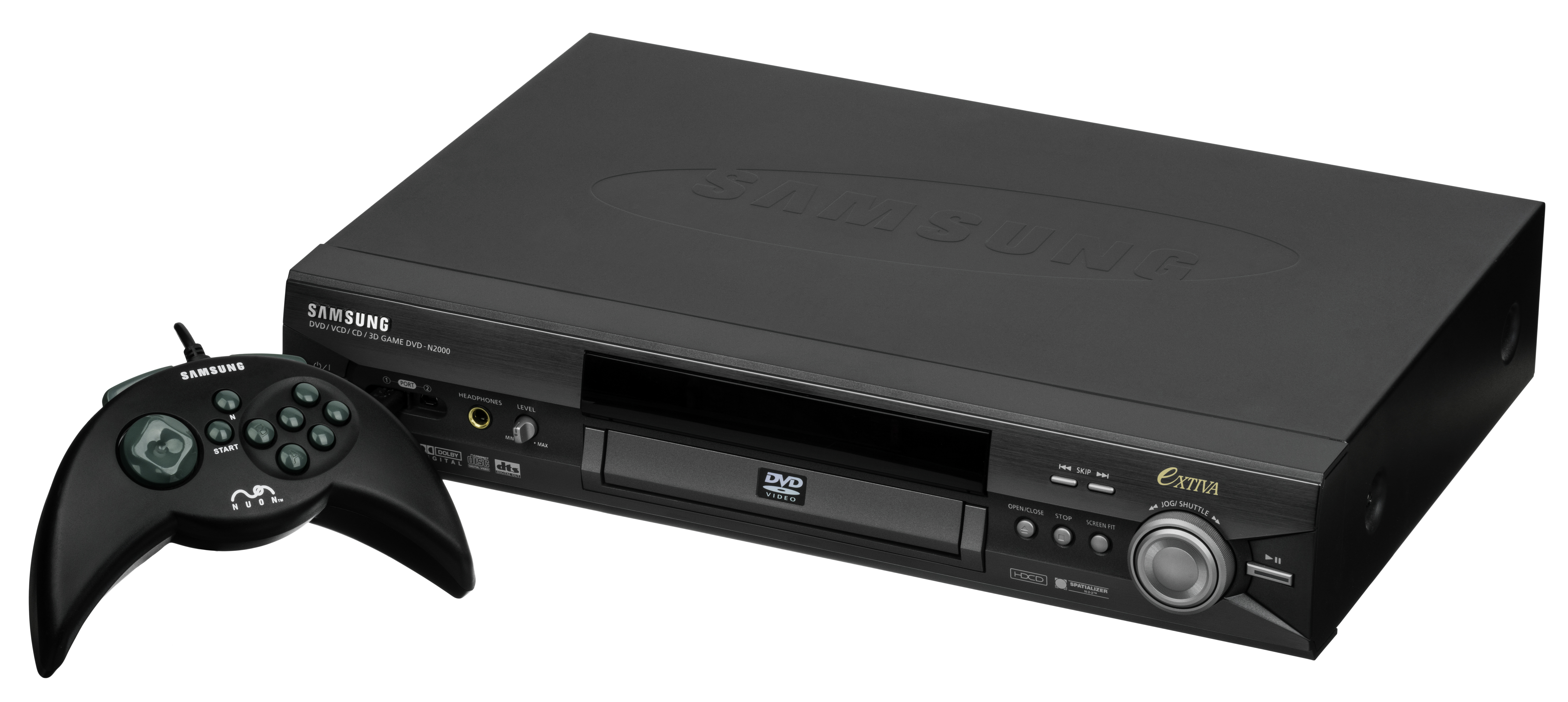 The Samsung N2000 DVD player, a hybrid gaming system/DVD player that was released in 2000, shown with its pack-in game controller. The N2000 features the Nuon chipset, which made it capable of playing 3D games and offering enhanced DVD playback with select movies. The Nuon line of gaming systems/DVD players came in a few models from different manufacturers, but the N2000 was the first to the market and also came bundled with a controller. Very few games were released for the platform, until the Nuon chipset was phased out a few years later.